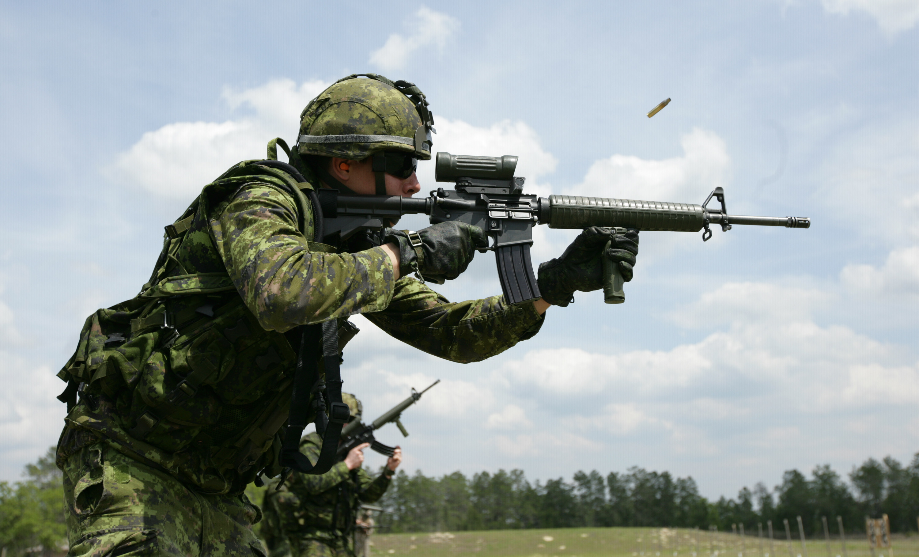 A Canadian soldier from Alpha Company, 3rd Battalion, 22nd Regiment prepares ammunition for rifle drills during Partnership of the Americas 2009 at Camp Blanding, Fla., April 16, 2009. Partnership of the Americas 2009, a multiservice, multinational exercise, is the oldest combined exercise within the Department of Defense. Marines with the 24th Marine Regiment conduct training exercises with marines from Brazil, Chile, Colombia, Mexico, Peru and Uruguay and soldiers from Canada as a part of Special Purpose Marine Air Ground Task Force 24. More than 25 ships, 50 rotary and fixed-wing aircraft, 650 Marines, 6,500 Sailors and four submarines will participate in the exercise.